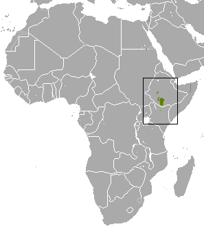 Bottego's Shrew (Crocidura bottegi) range